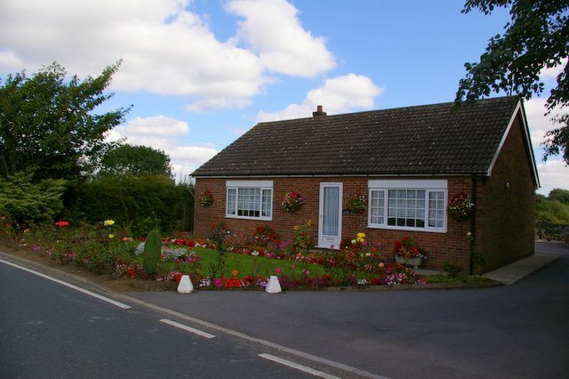 Bungalow Just Off B1230 near Gilberdyke, Scalby, East Riding of Yorkshire, England.